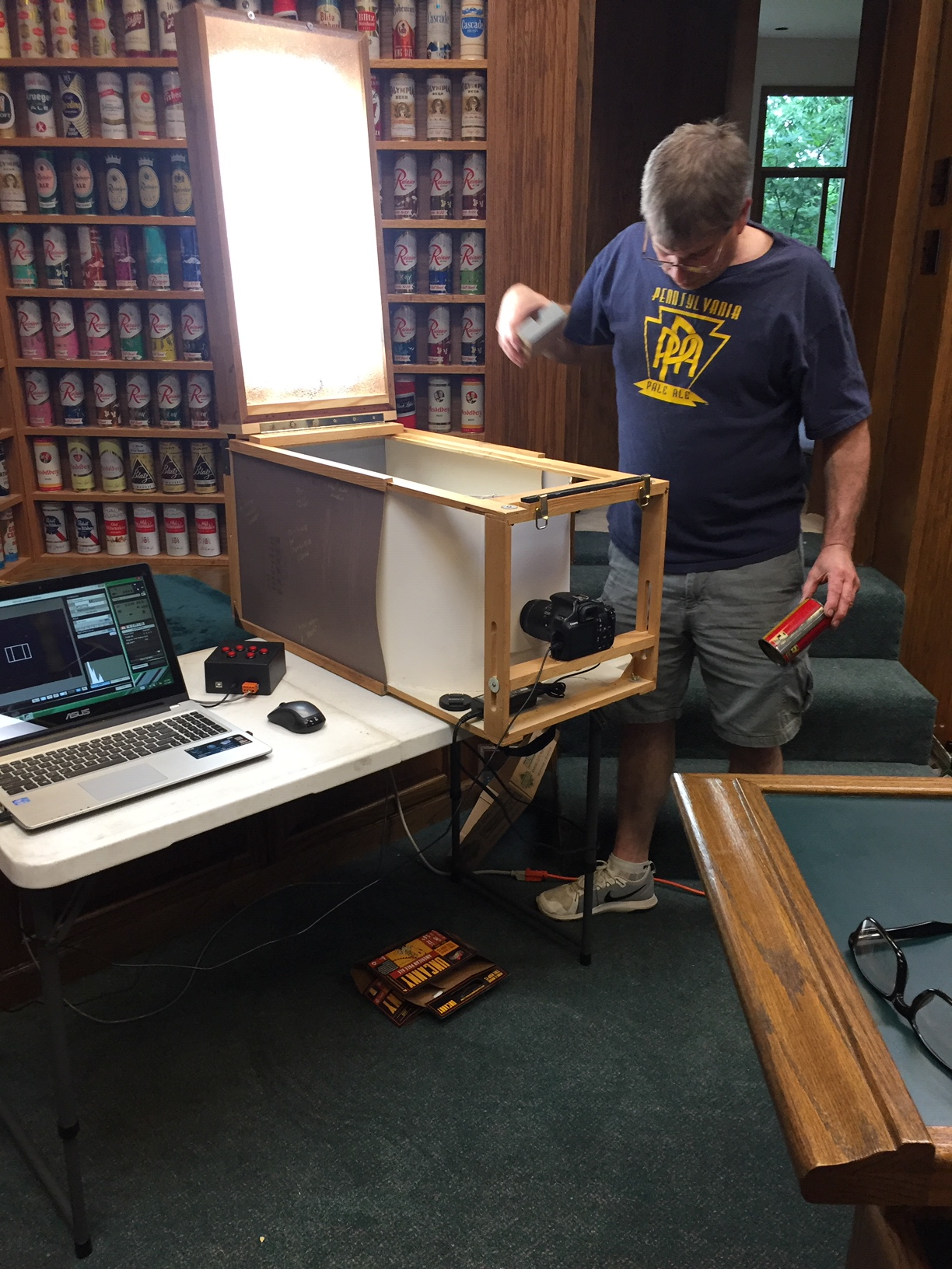 A BCCA member photographing cans. BCCA photographs and documents all pre-1980 cans in their publications and website.